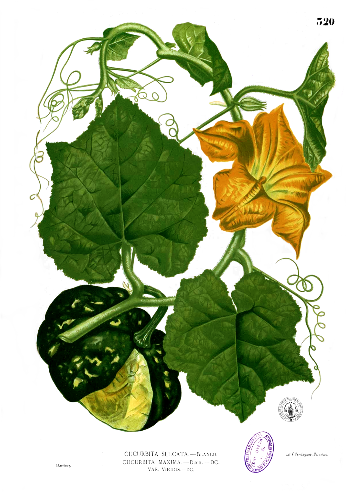 Plate from book